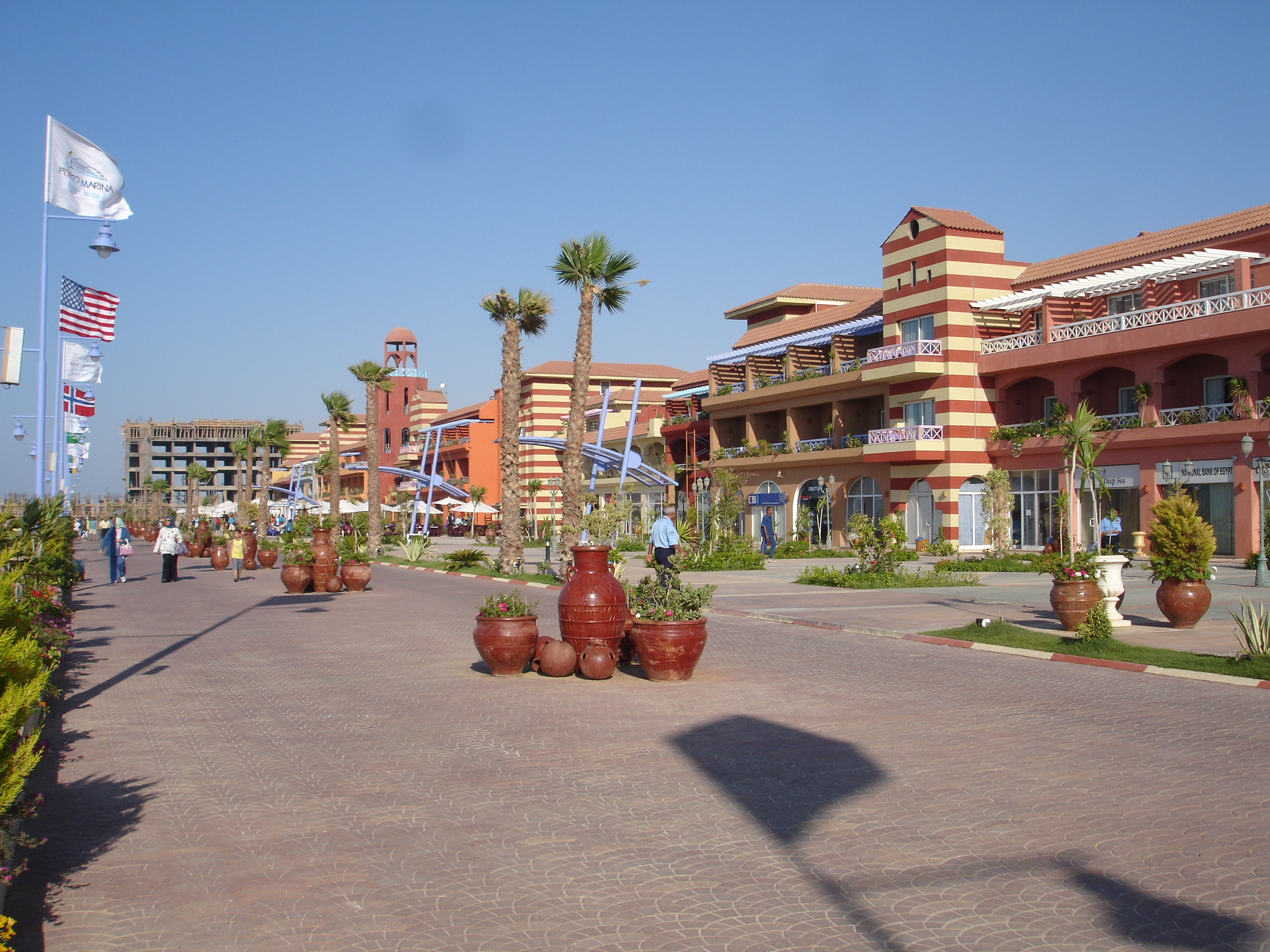 Hotels of Porto Marina before the High season